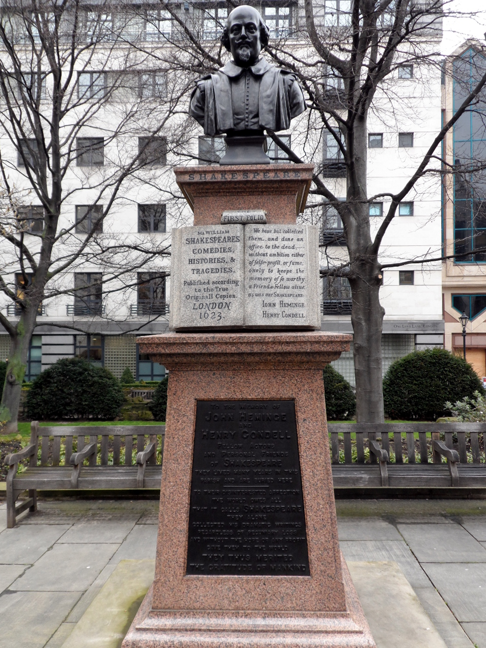 Memorial to John Heminge and Henry Condell, London